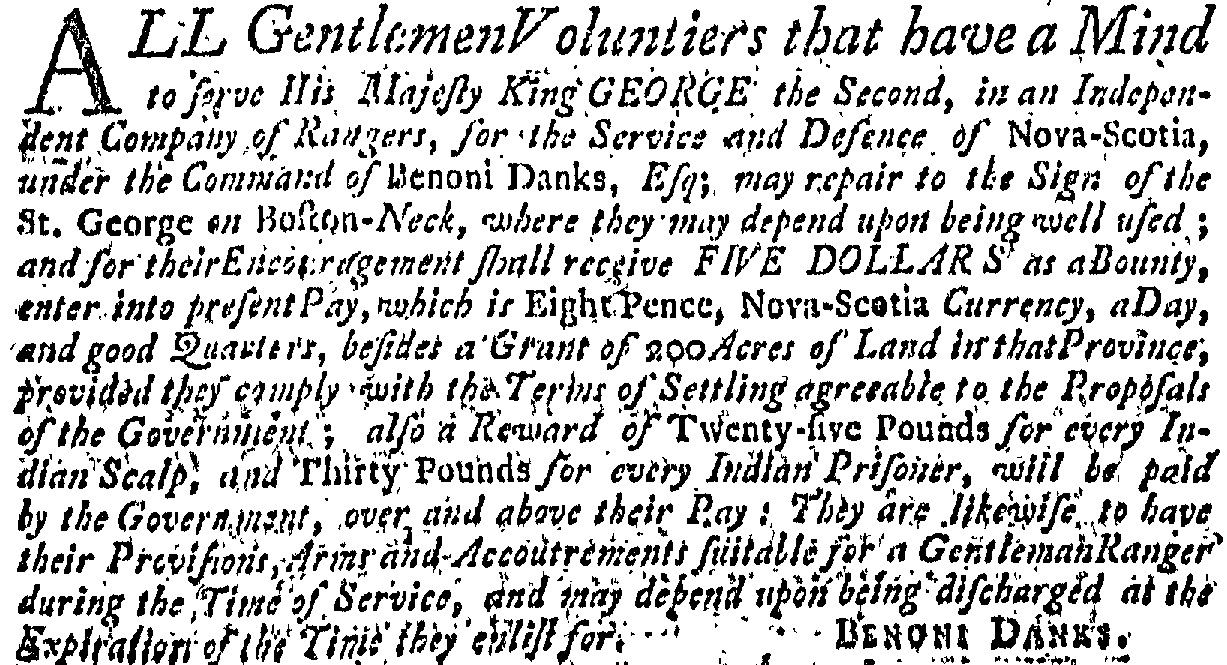 Image from a colonial newspaper, published in 1757.